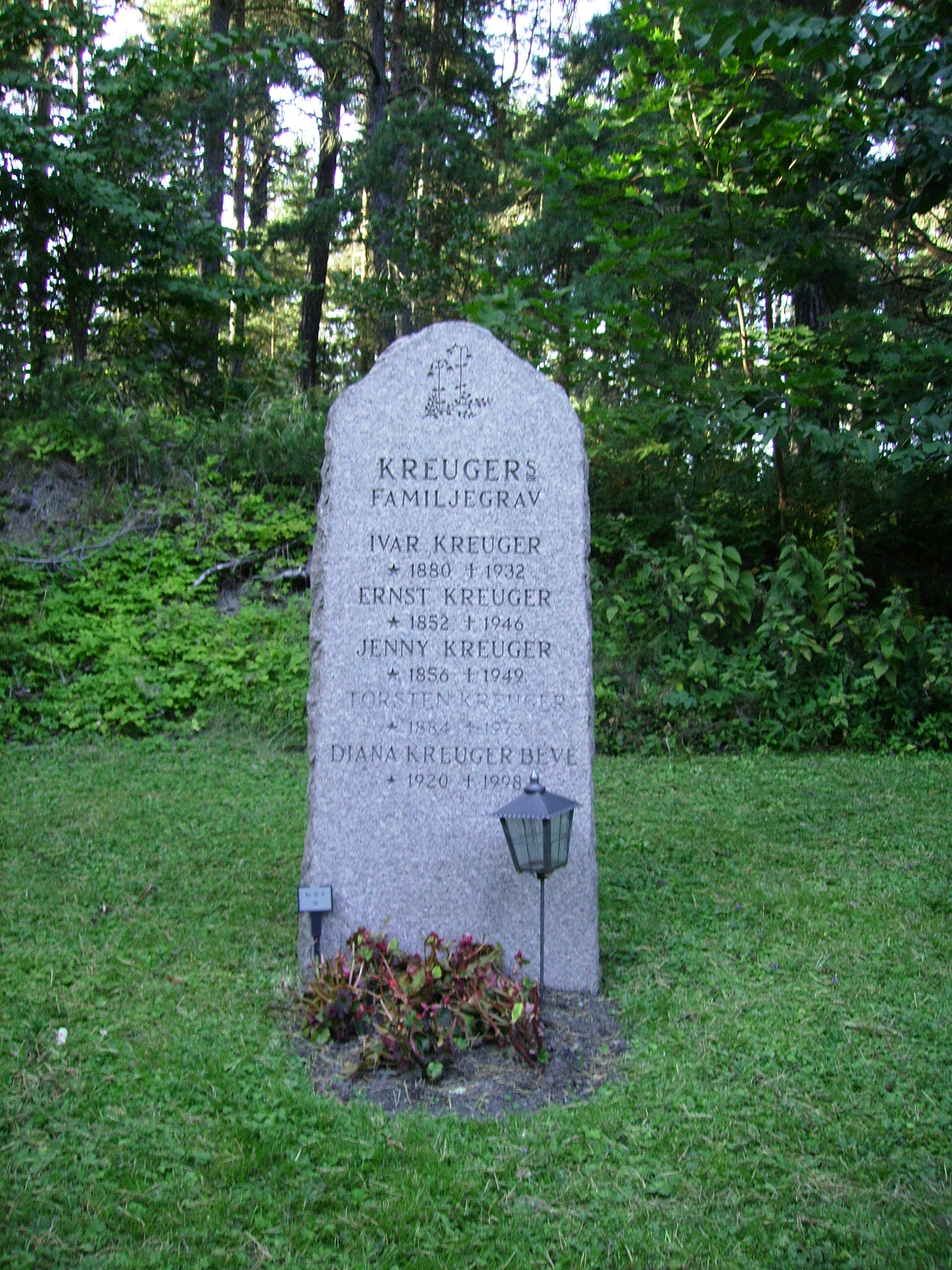 Picture of Ivar Kreuger's grave at Norra begravningsplatsen in Stockholm